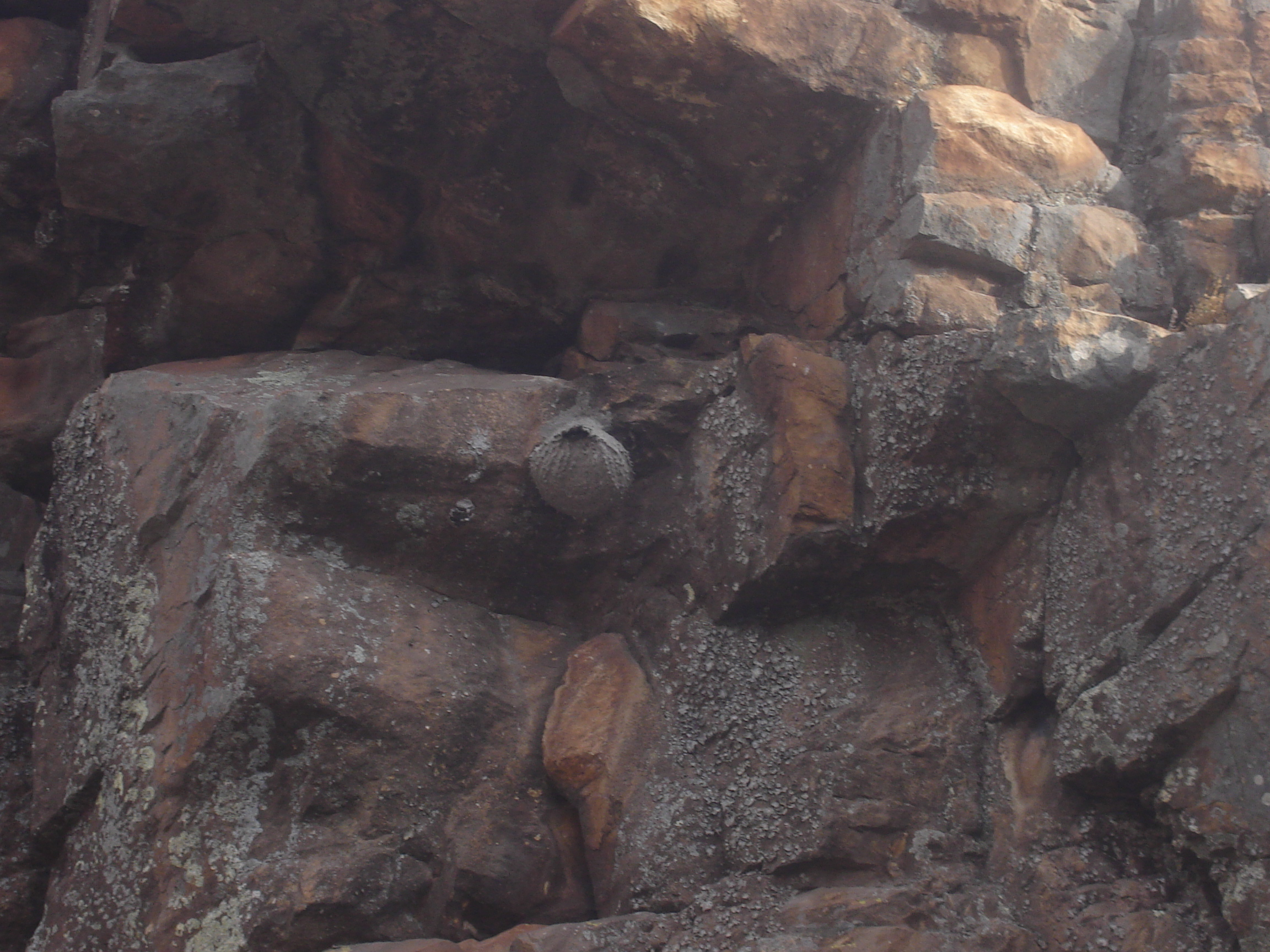 Camoatí